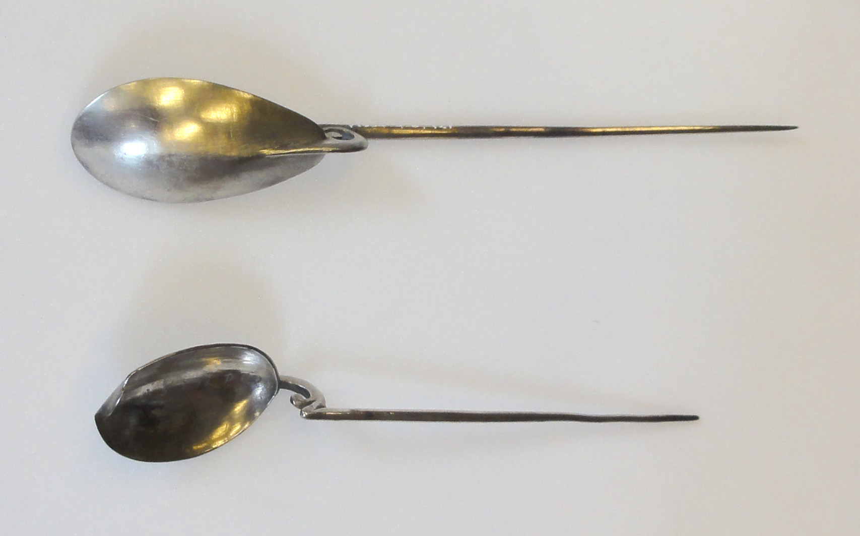 Two spoons showing front and back. A Cochlearium (plural cochlearia) was a small Roman spoon with a long tapering handle. Cochlearia have been found in a number of Roman sites from the 4th and 5th centuries CE, including the Thetford[1] and Hoxne Hoards.